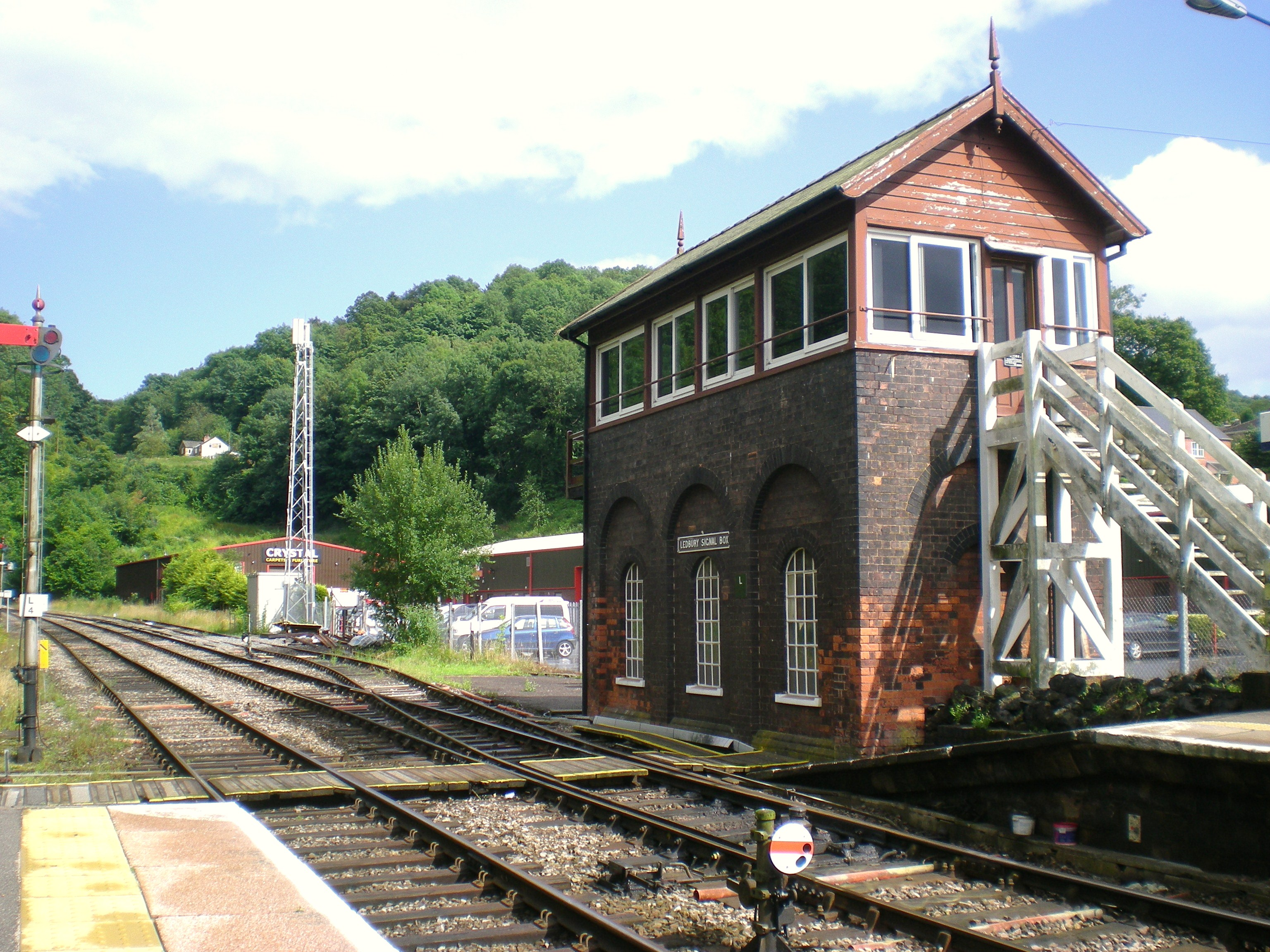 Ledbury Signal Box, Ledbury, Herefordshire, England.